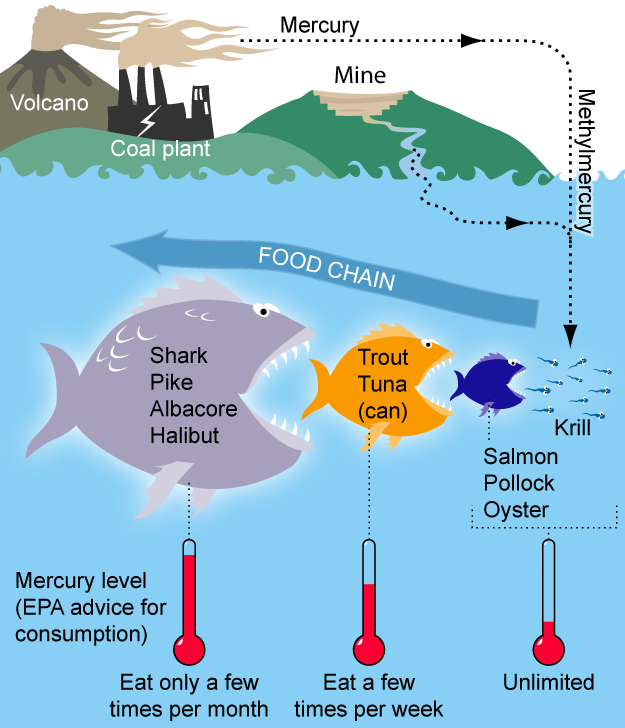 This figure shows some common sources of mercury, the conversion to toxic methylmercury and the outline of EPA consumption recommendations for certain types of fish based on mercury levels. The original caption stated: "Mercury from coal fired power plants and other sources travels through the atmosphere and water. Some is changed to methylmercury, which can enter the food chain to be concentrated at each step on that chain. Large old predators like sharks and pike, or scavengers like halibut, hold the greatest concentrations of mercury. The mercury is particularly problematic during development, so these limits here are designed to protect women who might become pregnant and children 12 or younger."